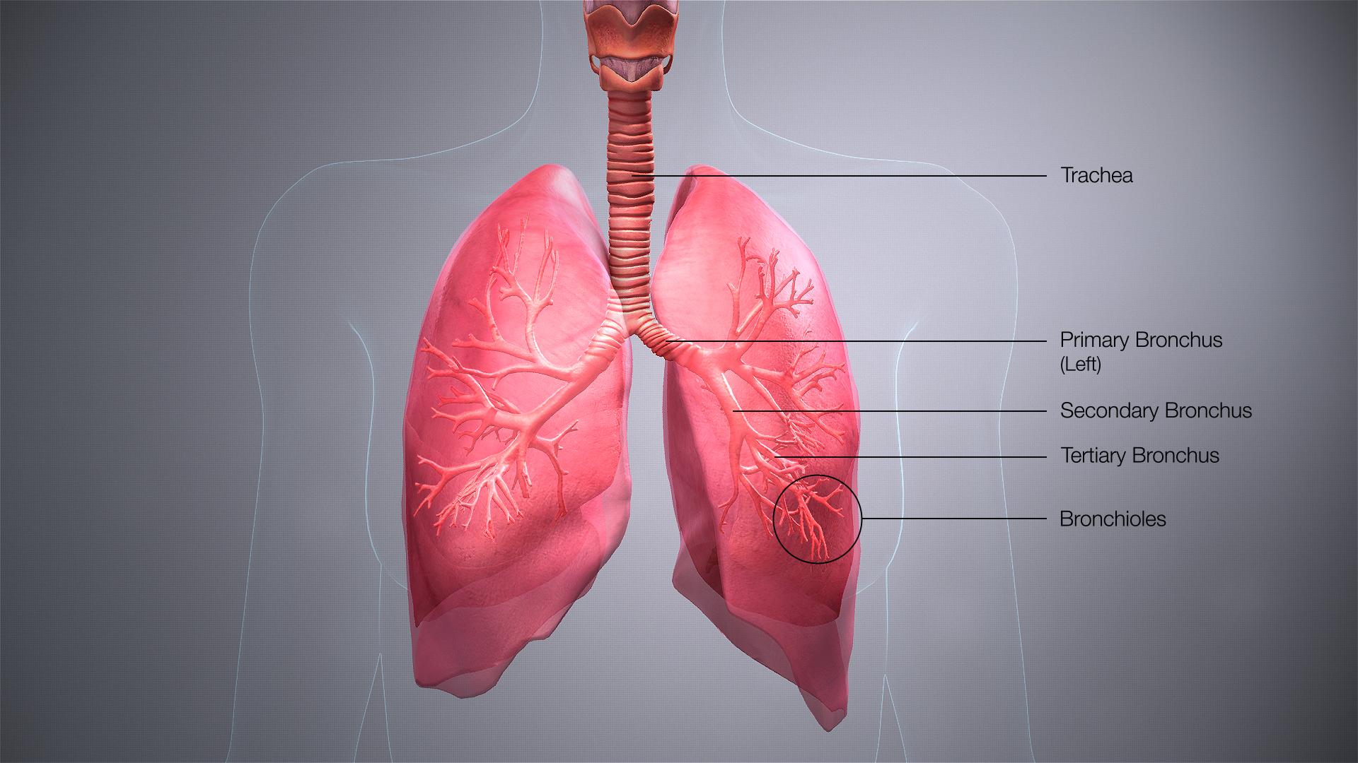 3D medical animation still shot displaying different levels of divisions of a bronchus.